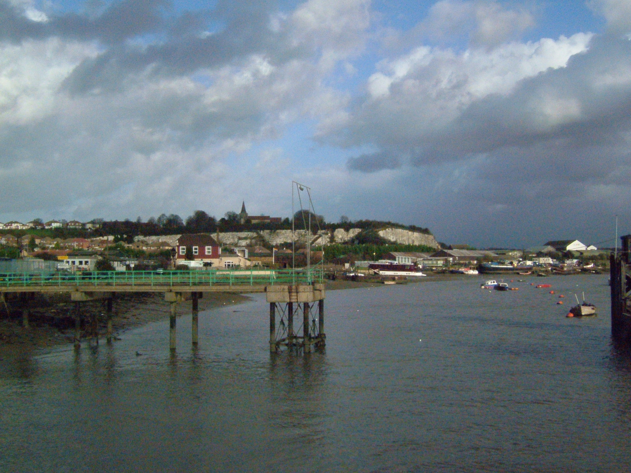 Taken from the Strood Riverside Wharf, we see Strood Pier. Behind it is the Riverside Inn and Canal Road. To the left houses in Commissioners Road that climbs up to Frindsbury Hill (not shown). Above them is Church Green leading to Frindsbury All Saints Church on the chalk cliffs formed by Quarrying. Below the cliffs to the right is the Frindsbury Peninsula. We can see the ships on Phoenix Wharf- named after the Phoenix Cement Works now gone.